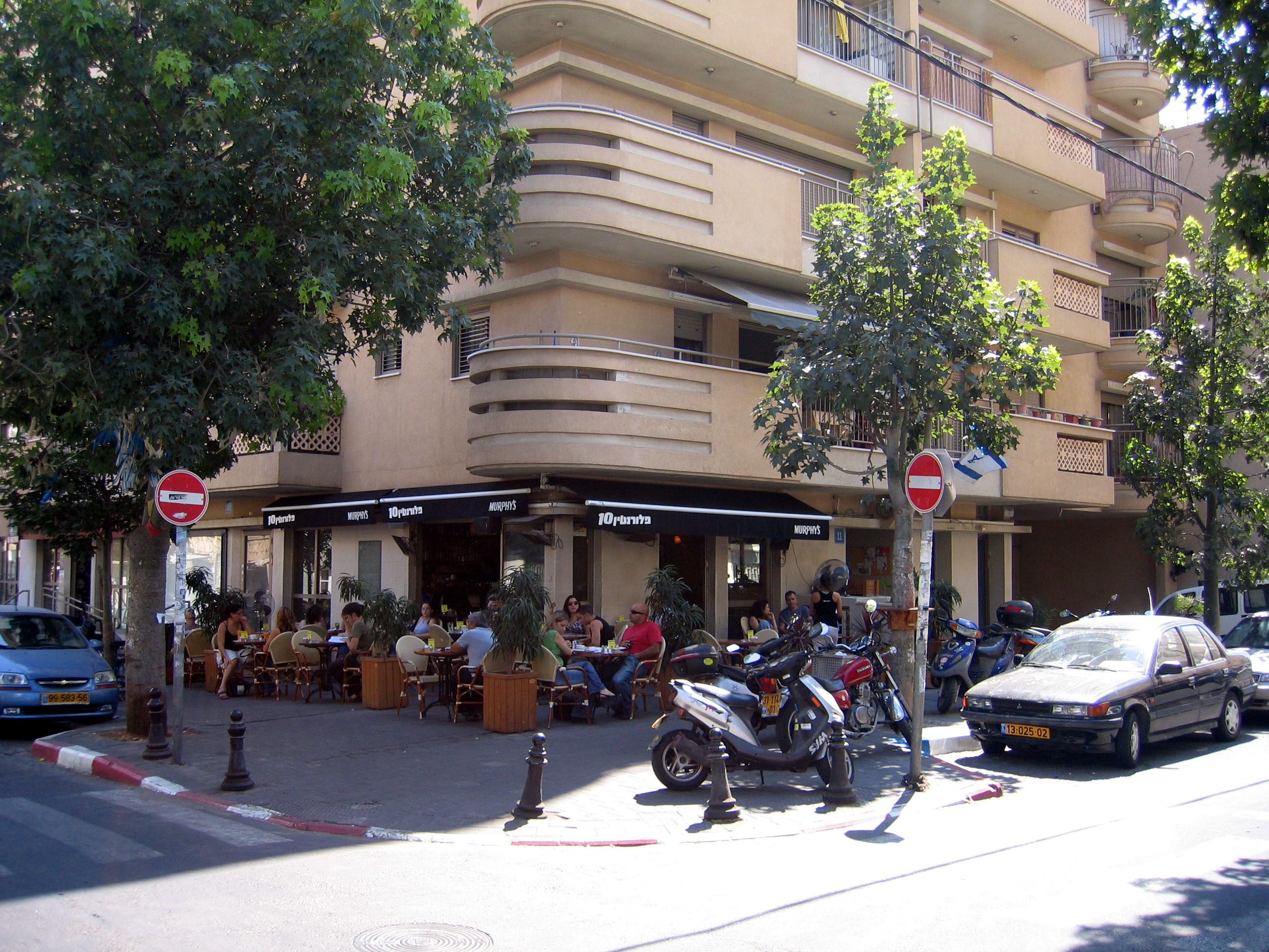 Florentin St.